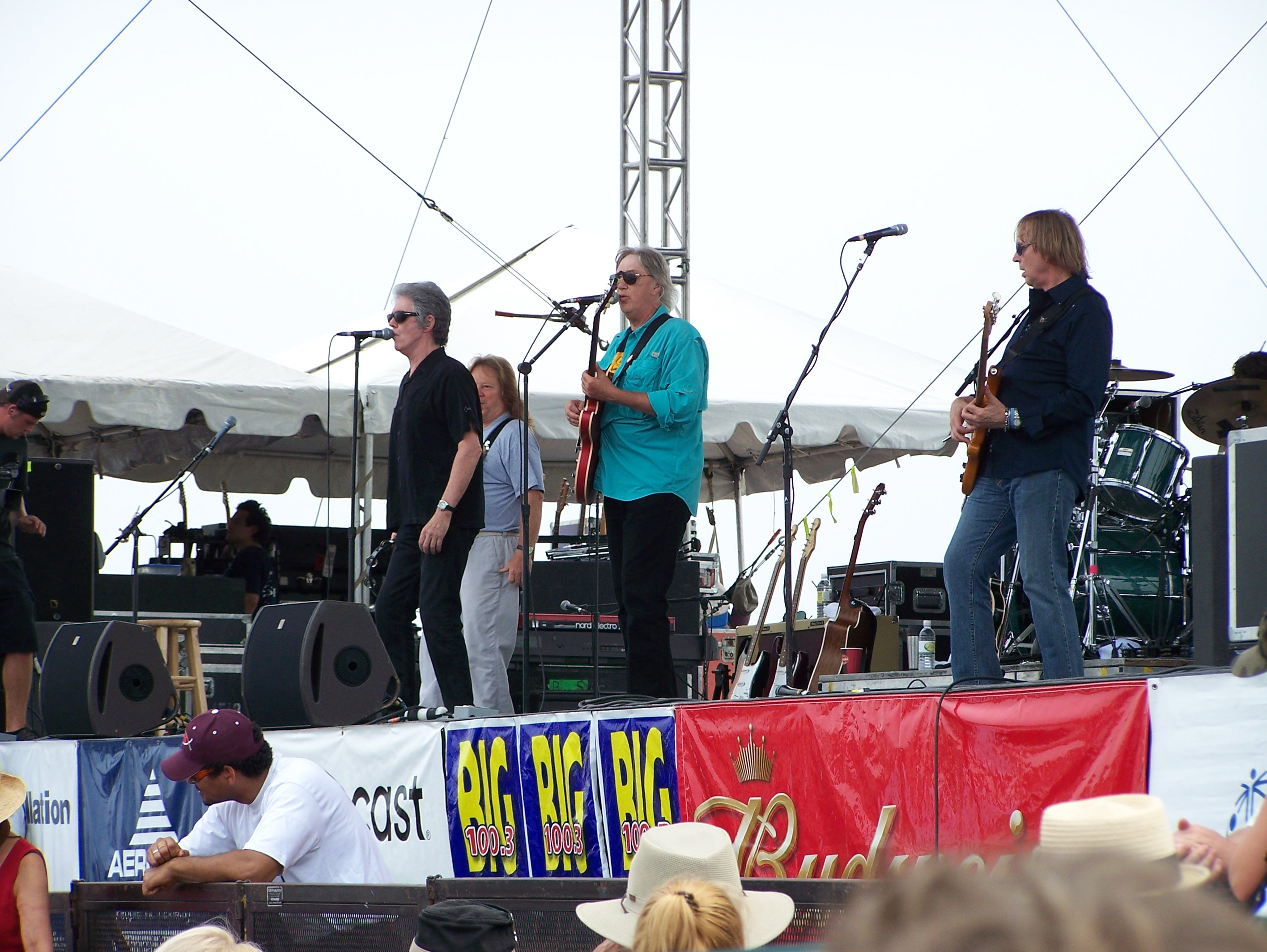 Three Dog Night performing at the Chesapeake Bay Blues Festival on August 5, 2007. This photo was taken by David Podgor.